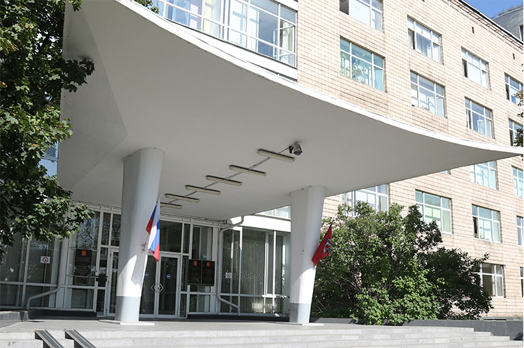 Всероссийская патентно-техническая библиотека. Вход в здание